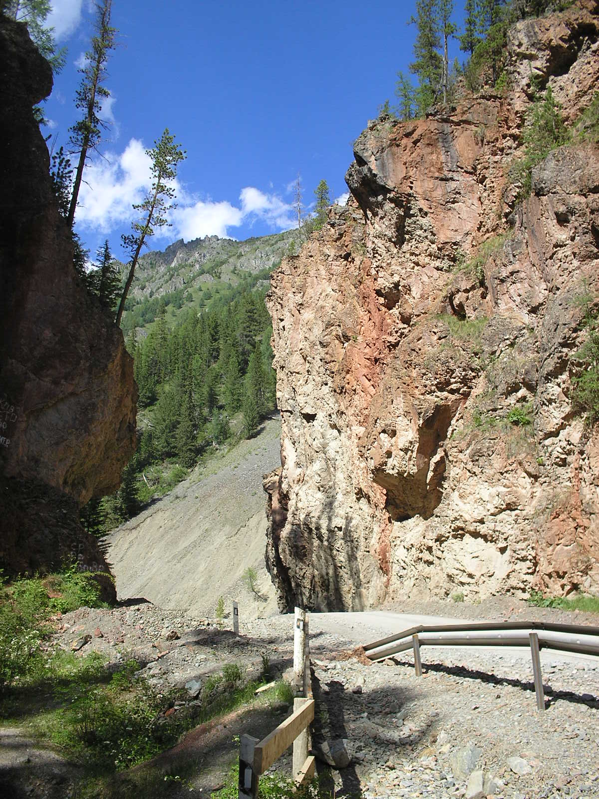 So-called Krasnye Vorota on the road from Aktash to Ust-Ulagan (Ulagansky Trakt)